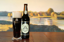 German Beer